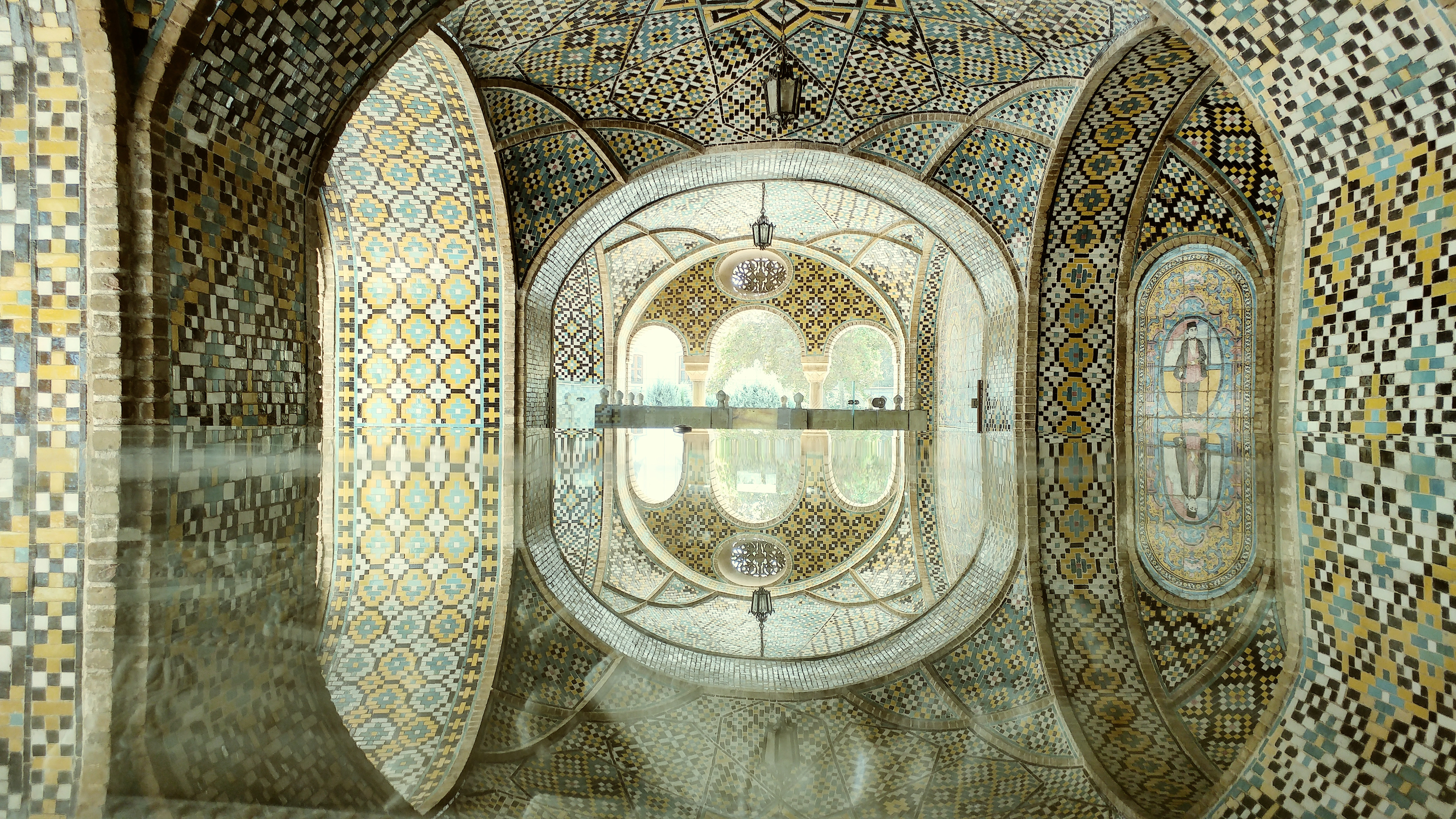 Tehran Goleastan Palace - Khalvat-e Karimkhani